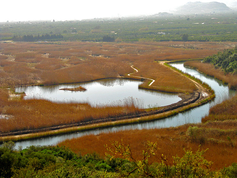 Marjal de Pego i d'Oliva. Wetlands park of Pego and Oliva.